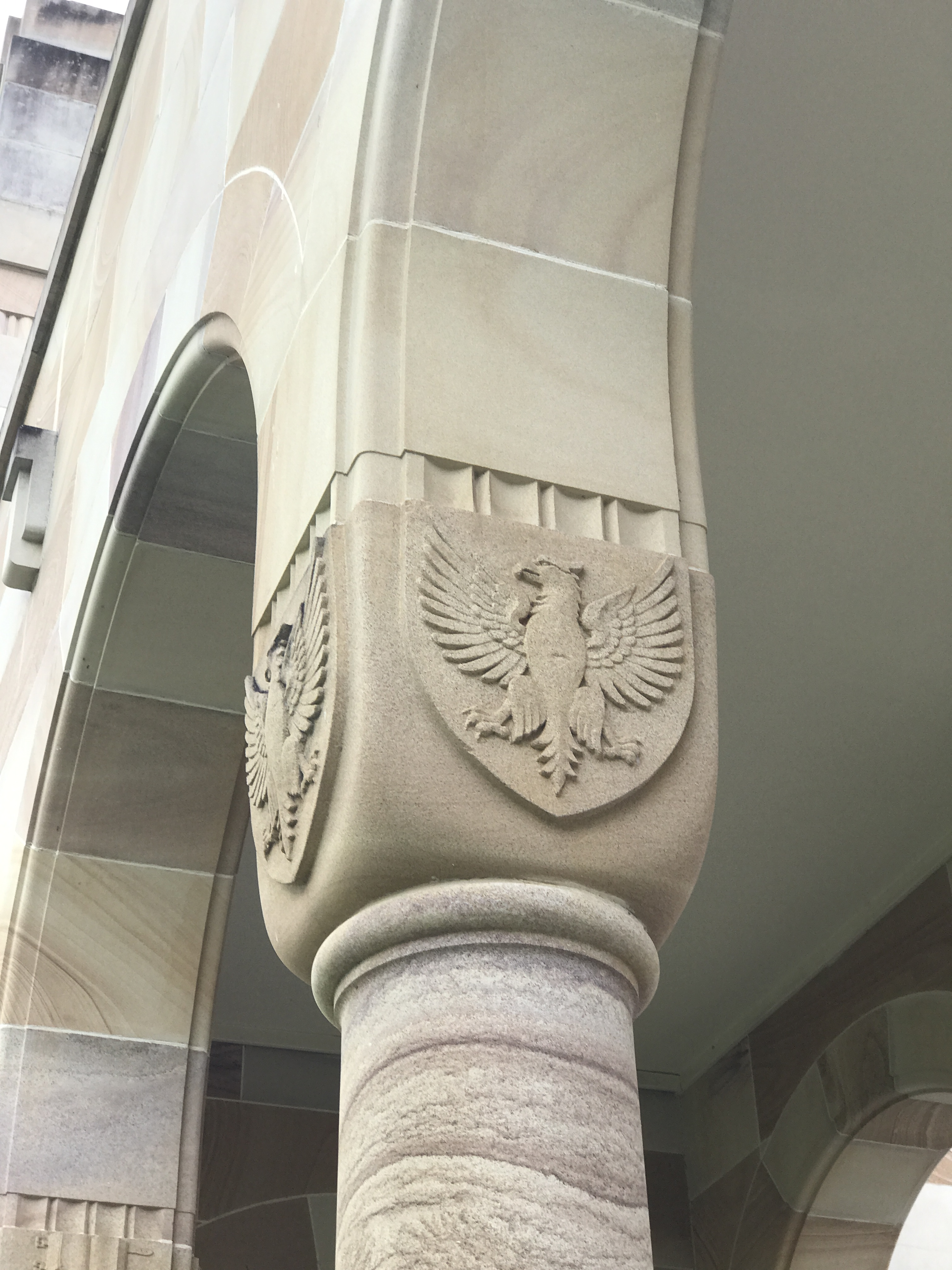 Capital of a column surrounding the Great Court, University of Queensland, St Lucia Campu